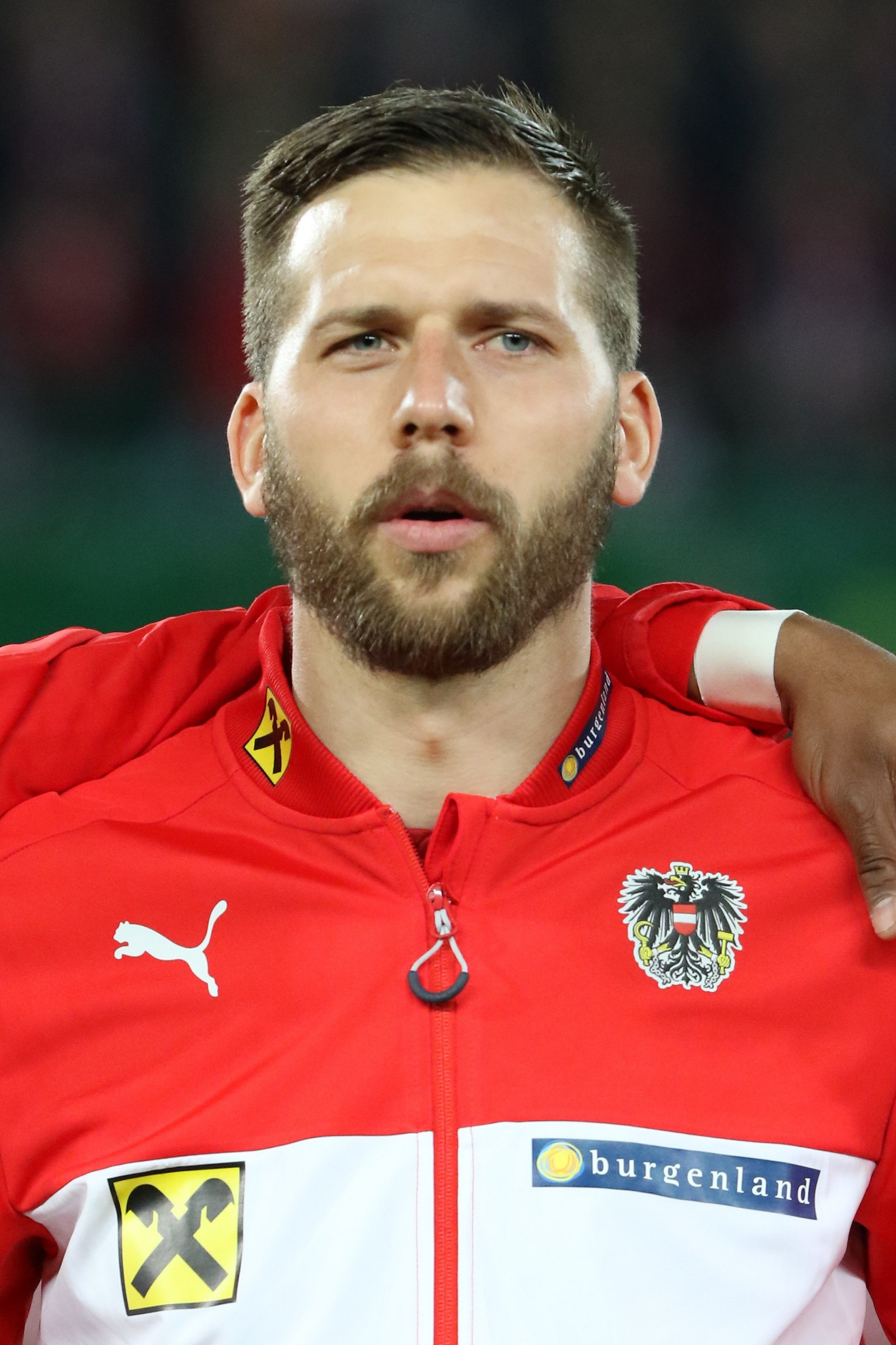 Friendly match – Austria (red shirts) vs. Turkey (blue shirts) 1–2 (1–1) on 2016-03-29 in Ernst-Happel-Stadion, Vienna – The photo shows Guido Burgstaller (1. FC Nürnberg).